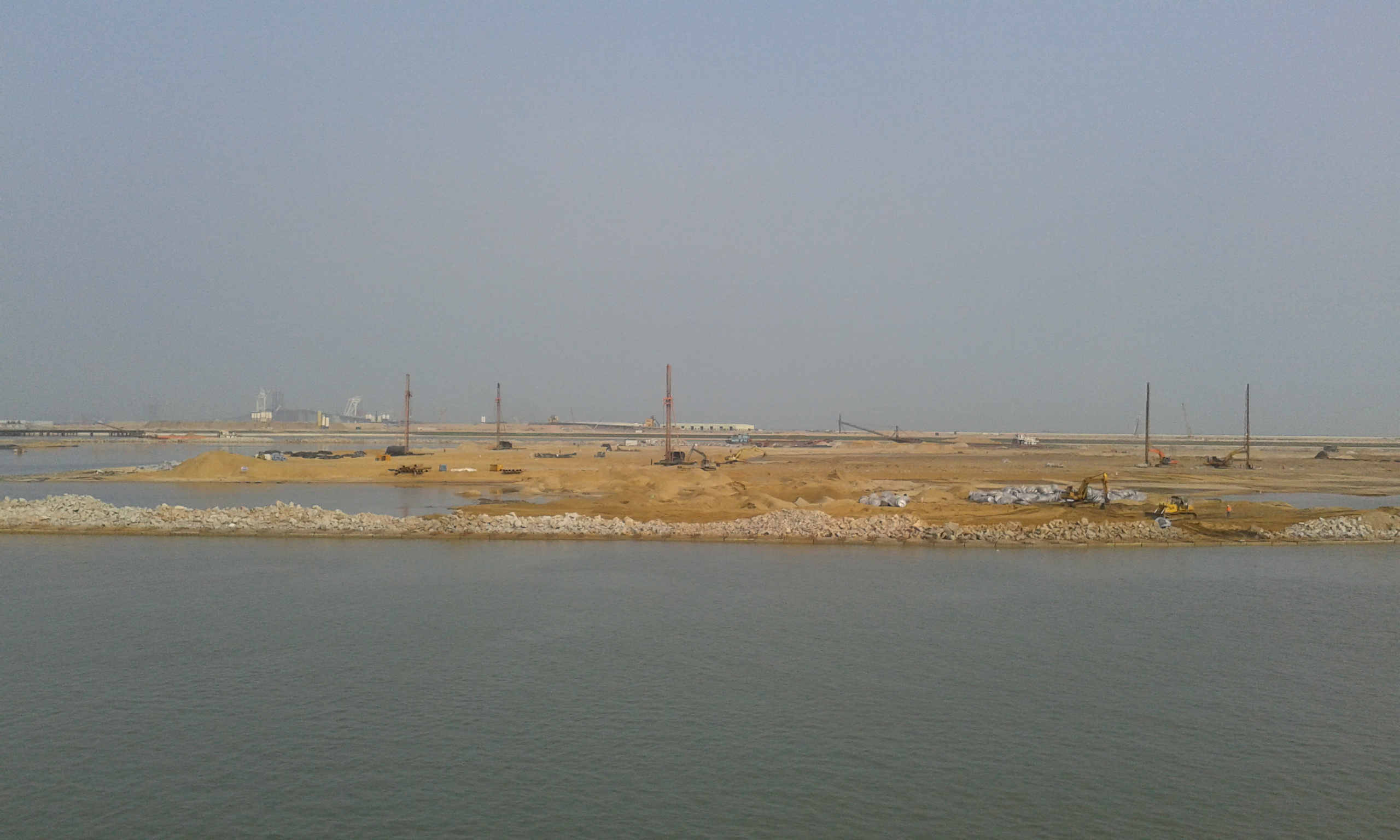 Zone A of Macau New Zone